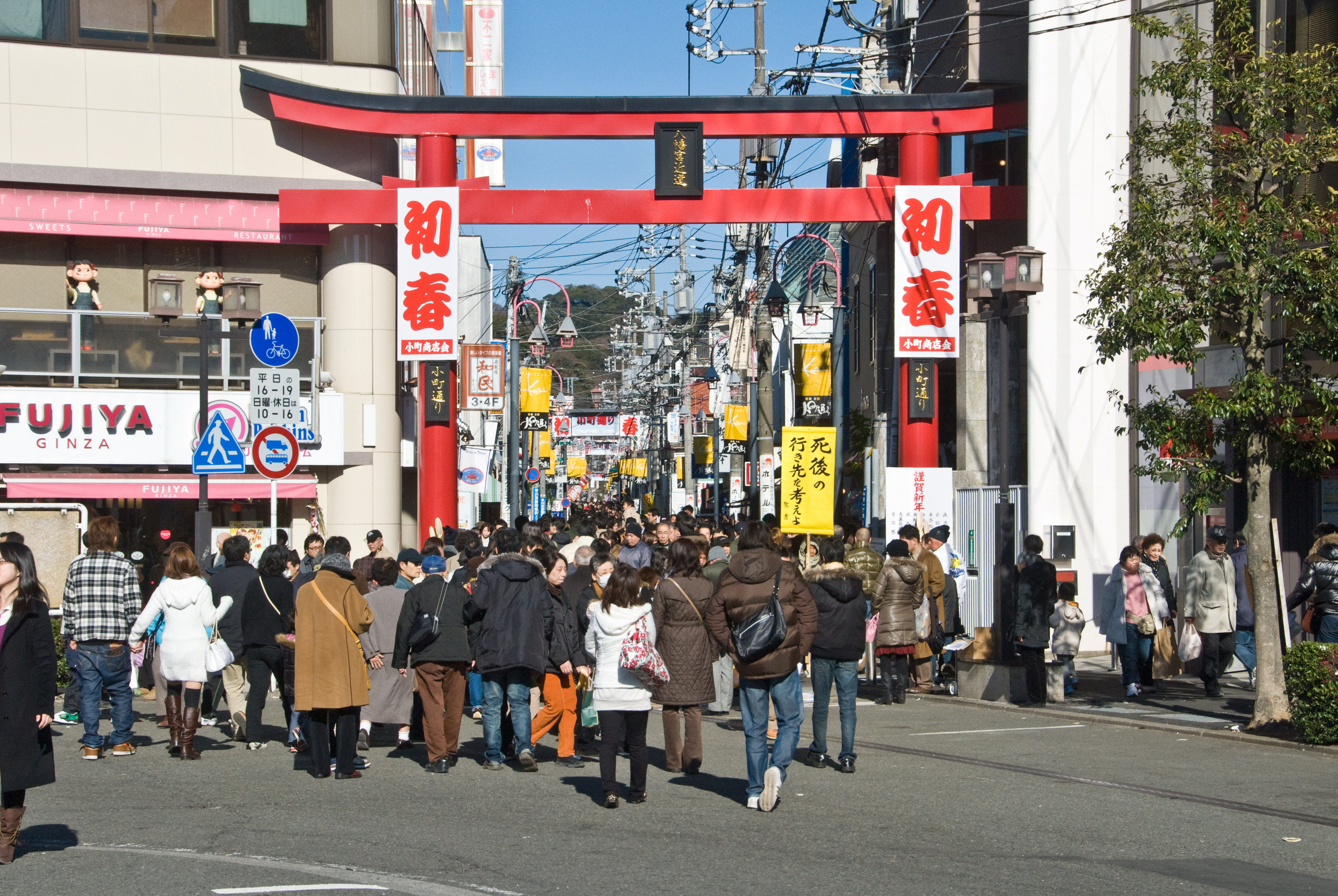 Komachi Dōri in Kamakura, Japan